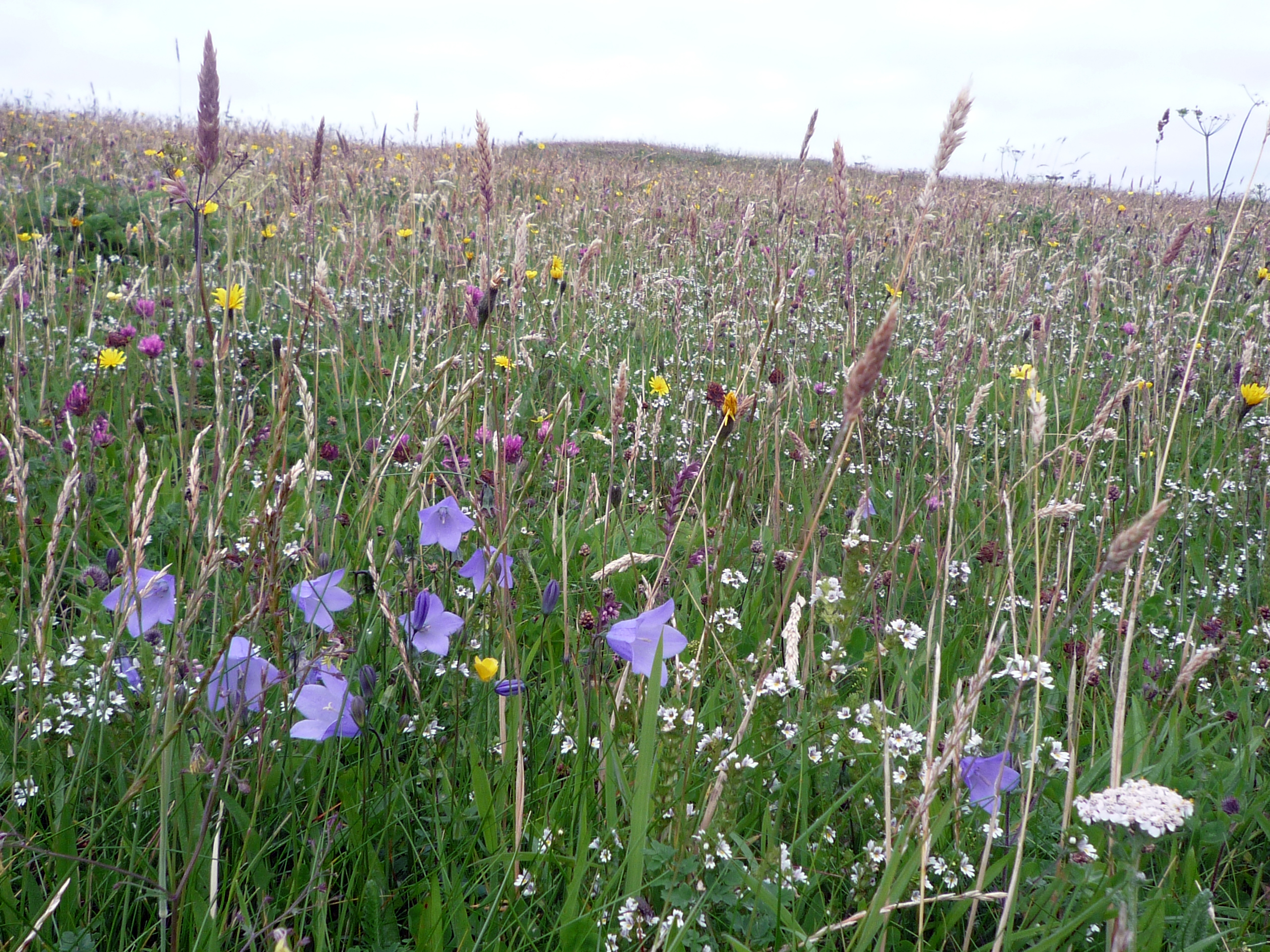 Wildflowers on a machair on Berneray